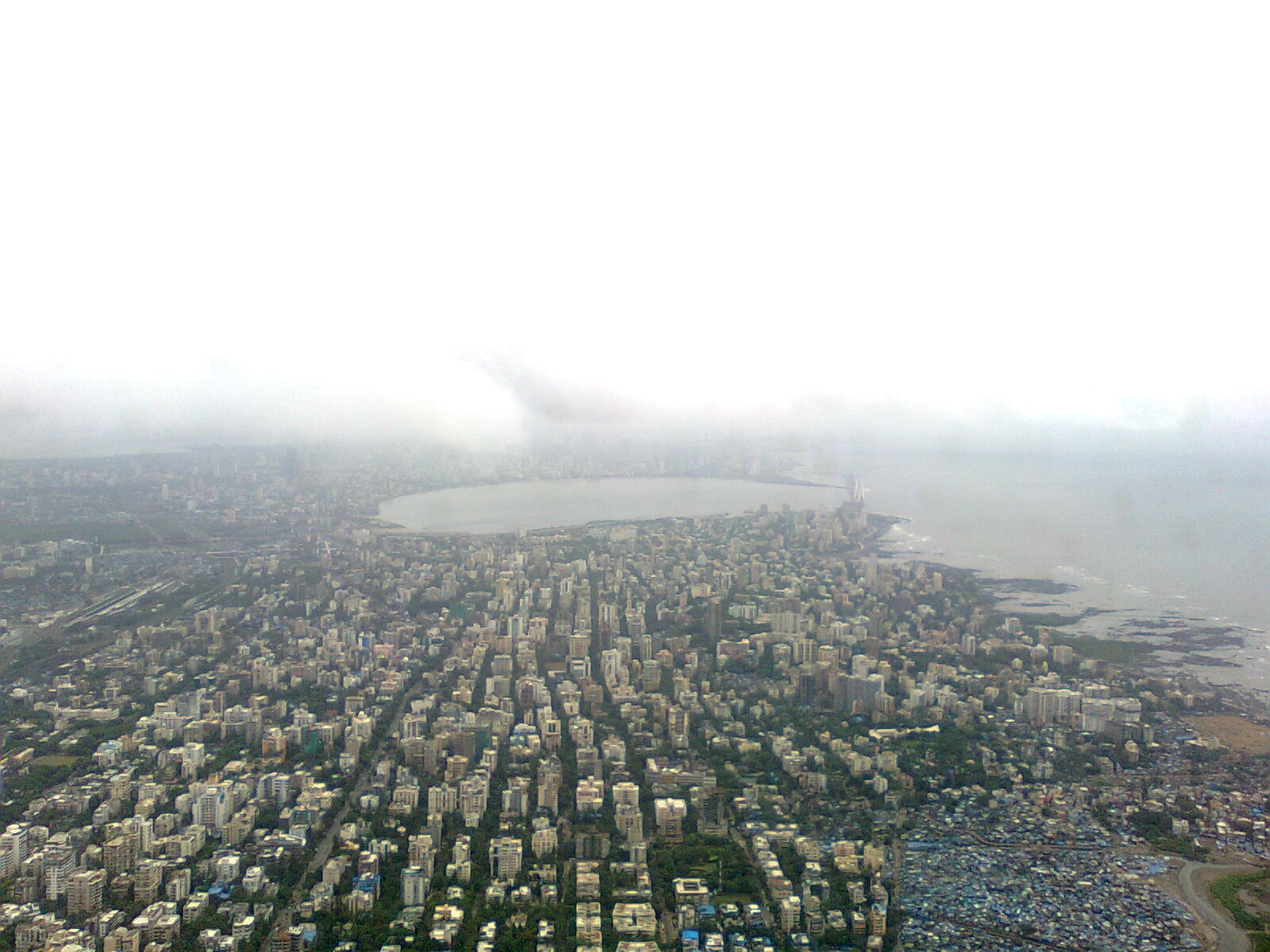 Taken after take-off from Mumbai International Airport. Seen below are the western parts of suburbs of Vile Parle, Santa Cruz, Khar and Bandra. Seen in the extreme left is the Western Railway line which divides Mumbai's western suburbs into West and East, suffixed (W) and (E) respectively. The C shaped causeway marks the beginning of the city of Mumbai with areas like Mahim, Shivaji Park, Dadar and Worli. Also seen is the Bandra Worli sea link. Downtown Mumbai is approximately 15 kilometres from where the photo is taken.